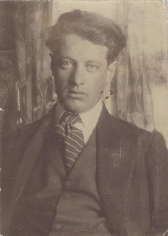 Bulgarian painter Miladin Lazarov, as second lieutenant of the reserve (1894-1985)